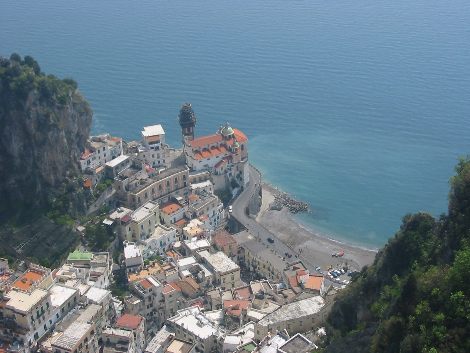 Atrani at the Amalfi coast